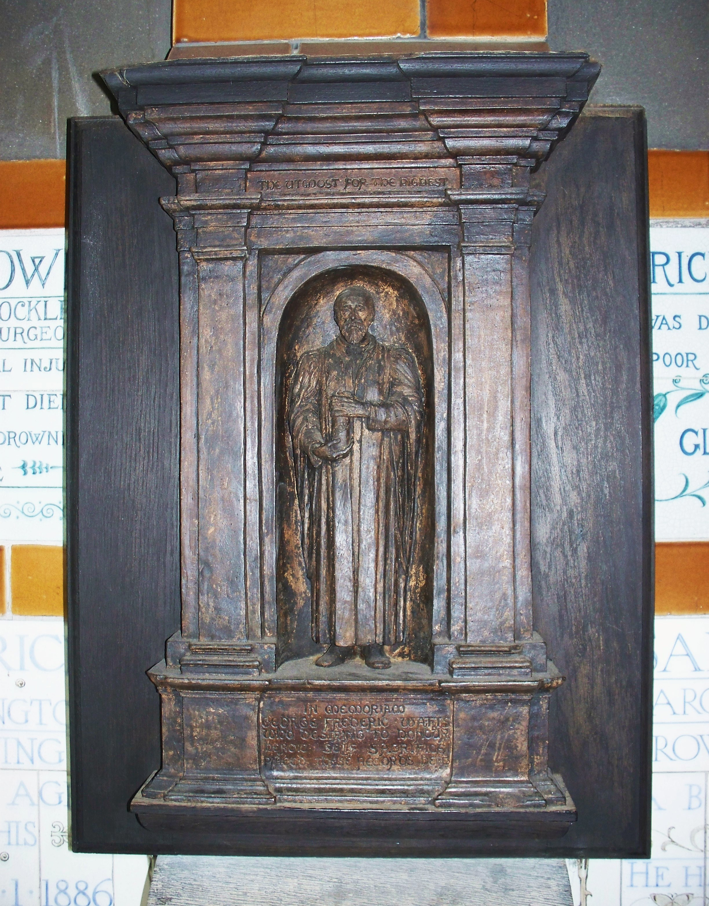 Memorial to George Frederic Watts, Postman's Park, London. Photograph taken in a public location in the UK of a structure on permanent public display, and exempt from copyright under Section 62 of the Copyright Designs & Patents Act 1988 ("it is not an infringement of copyright to film, photograph, broadcast or make a graphic image of a building, sculpture, models for buildings or work of artistic craftsmanship if that work is permanently situated in a public place or in premises open to the public")